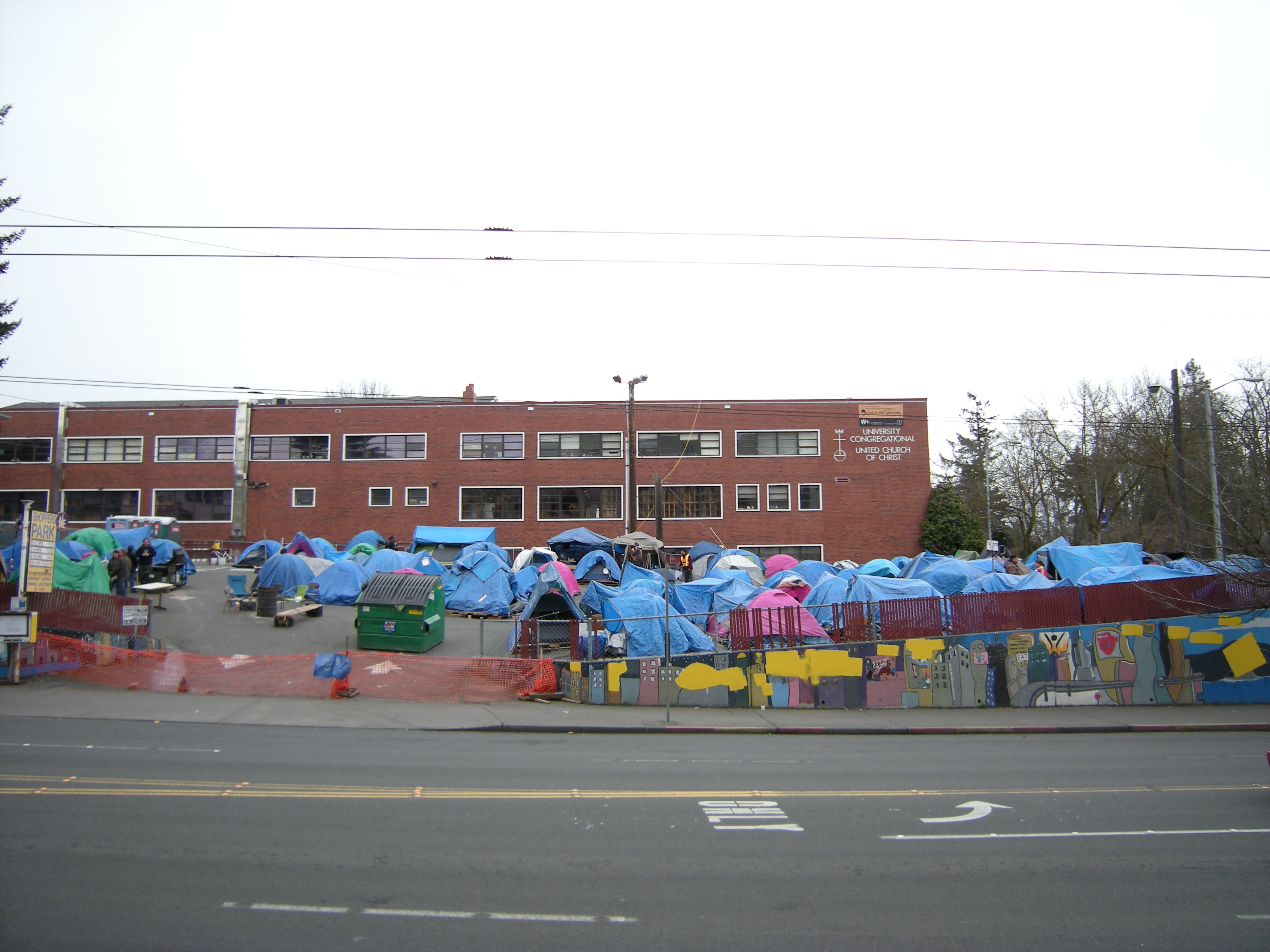 "Nickelsville" homeless encampment (named after Seattle Mayor Greg Nickels) towards the end of its 3-month stay in the parking lot of the University Congregational United Church of Christ in the University District, Seattle, Washington.